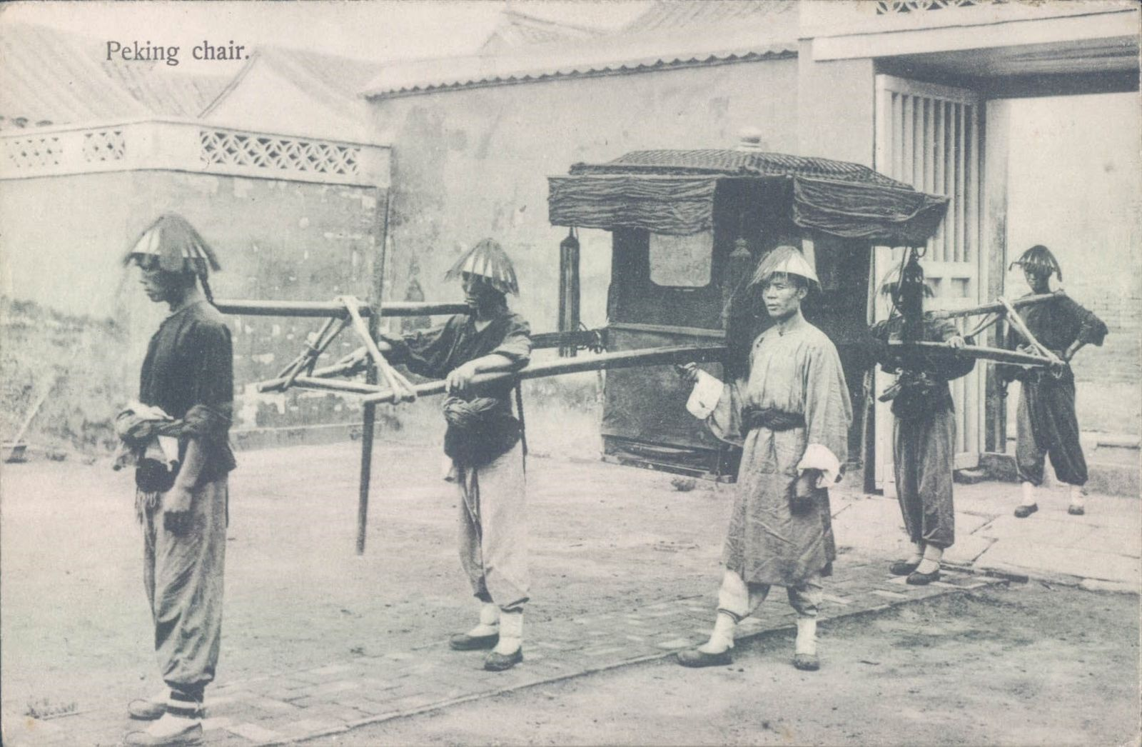 Peking Chair